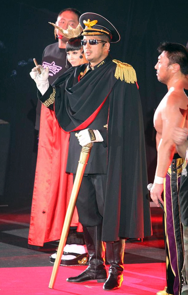 Nobuhiko Takada at the Hustle 30, in the Yoyogi National Gymnasium on April 13, 2008.